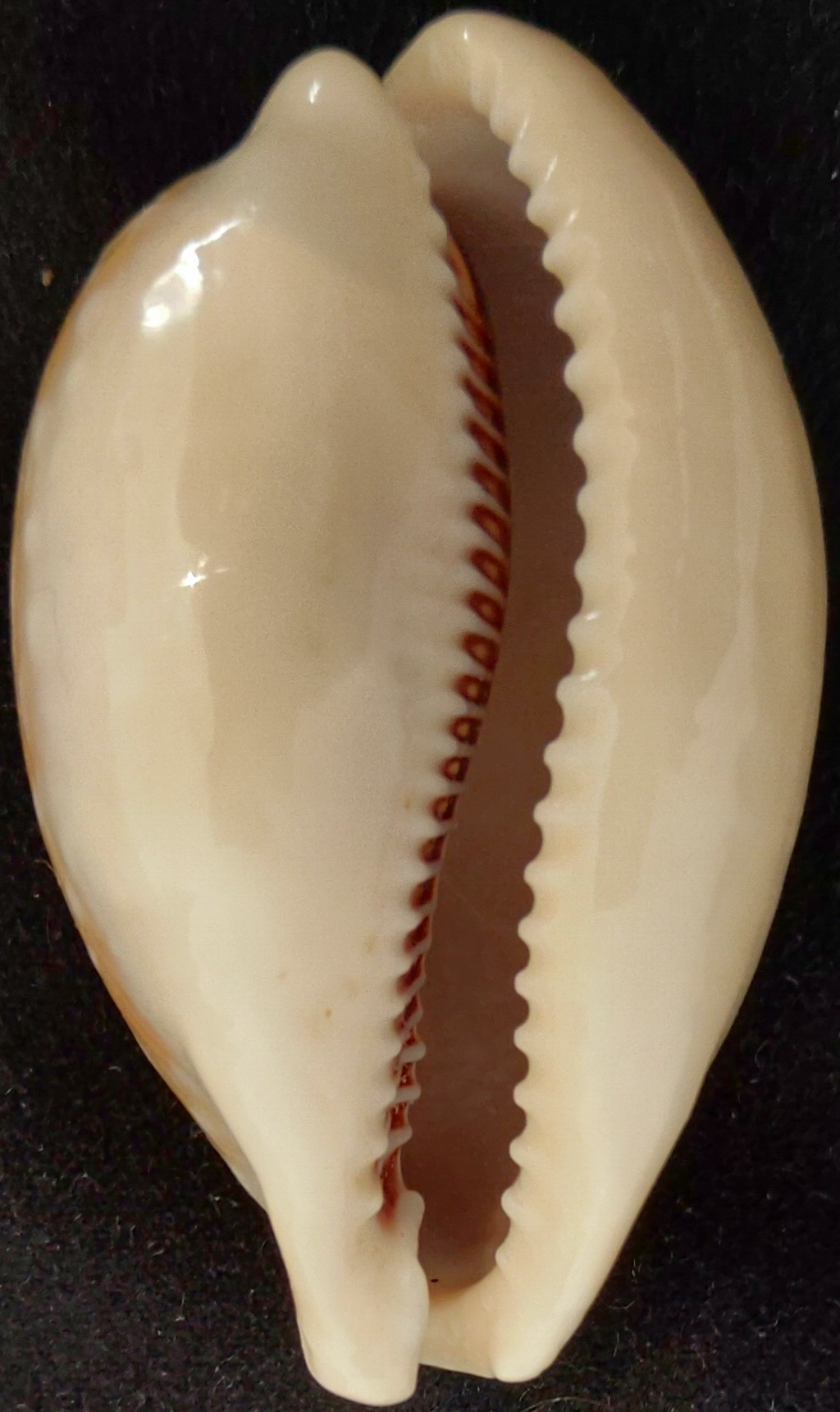 Lyncina Camelopardalis Front